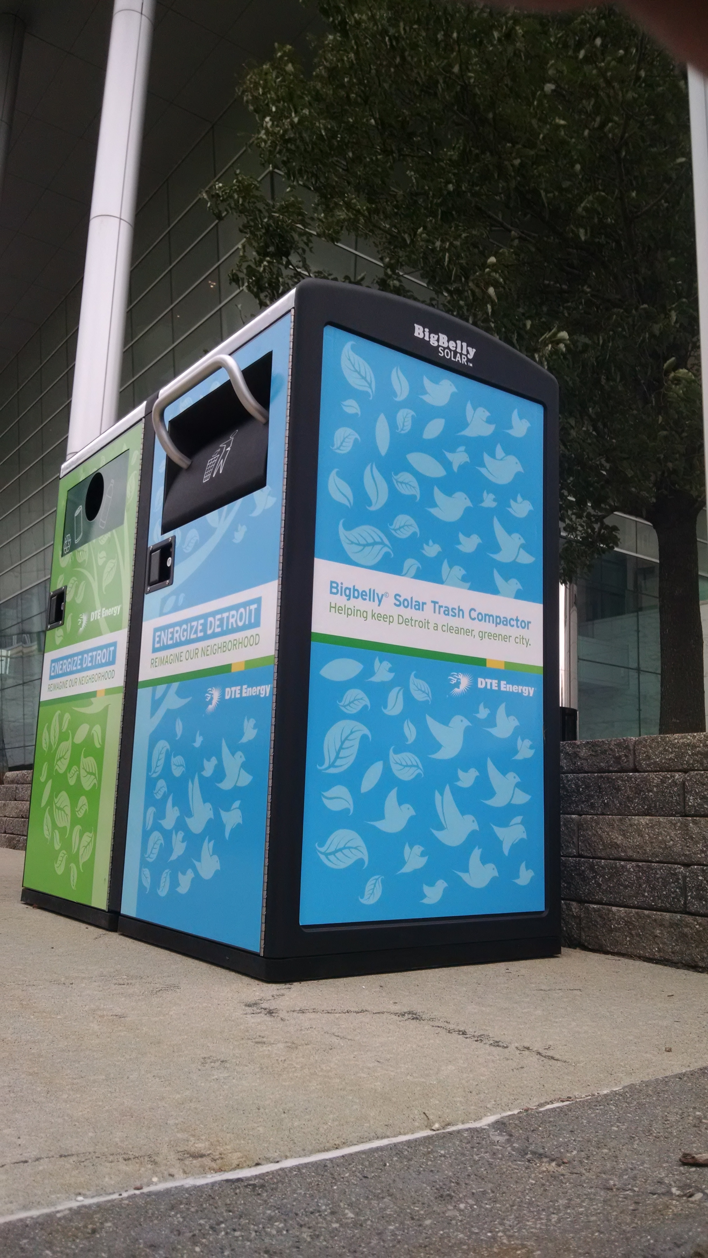 Installation at the DTE Headquarters Office in Detroit Michigan